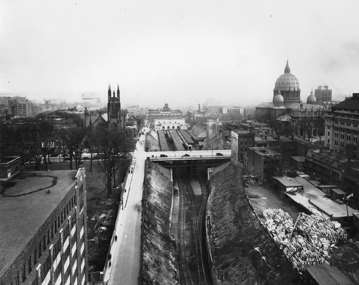 Photograph, Looking South, Canadian National Railway pit, near Dorchester St., Montreal, QC, 1930, Canadian National Railways, Silver salts on paper - Gelatin silver process - 19 x 23 cm